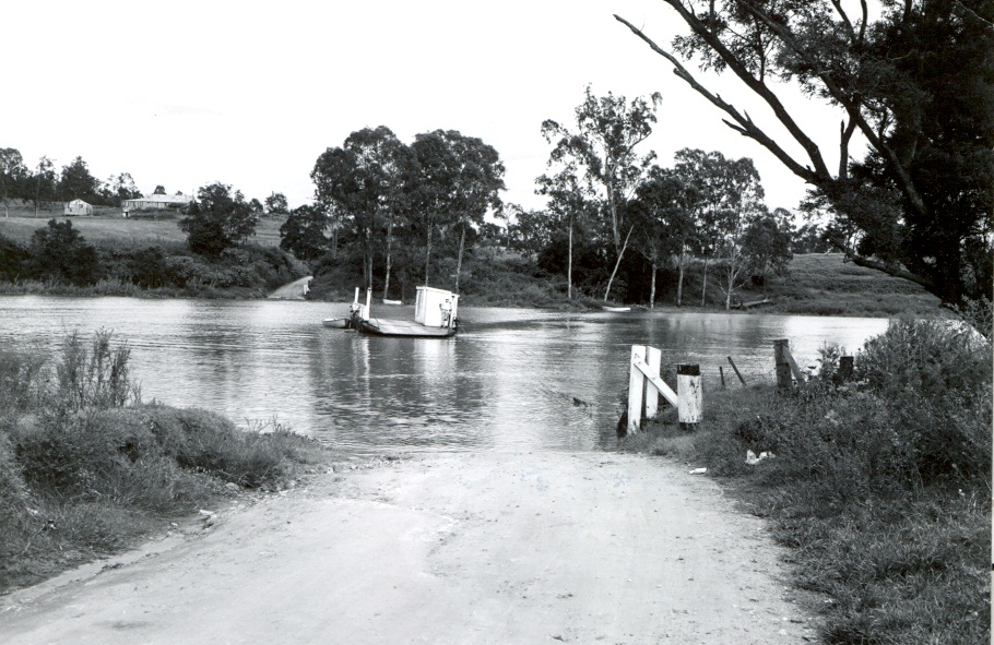 Moggill Ferry Crossing Moggill River 1954